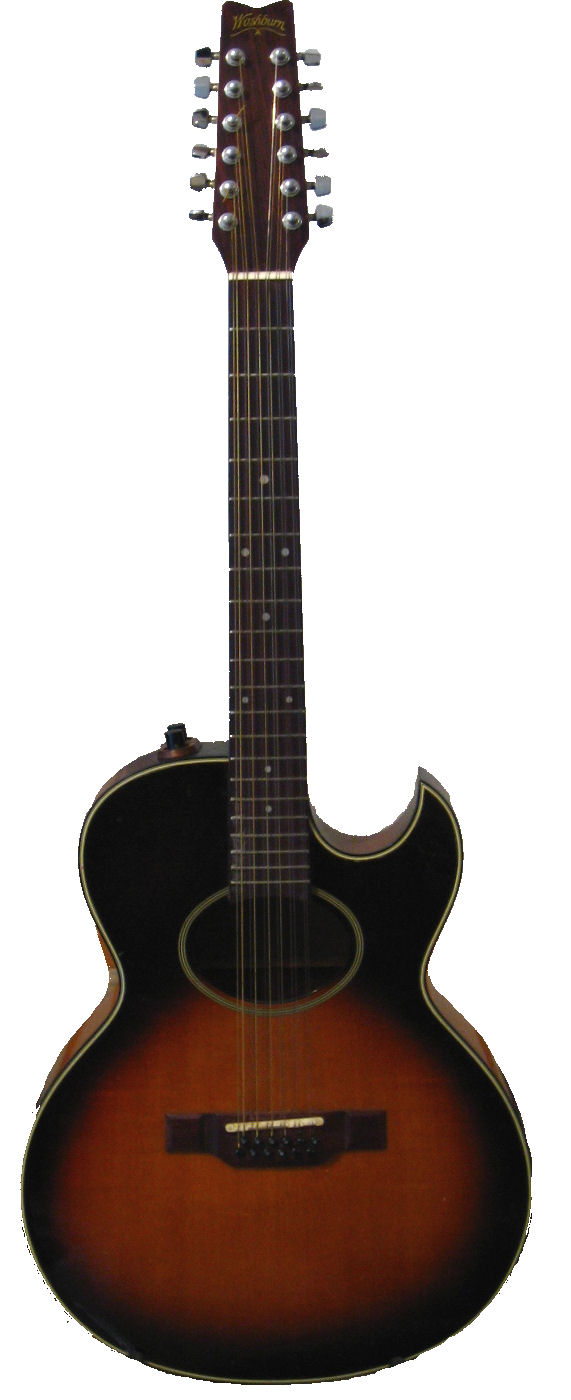 Washburn 12-string acoustic guitar